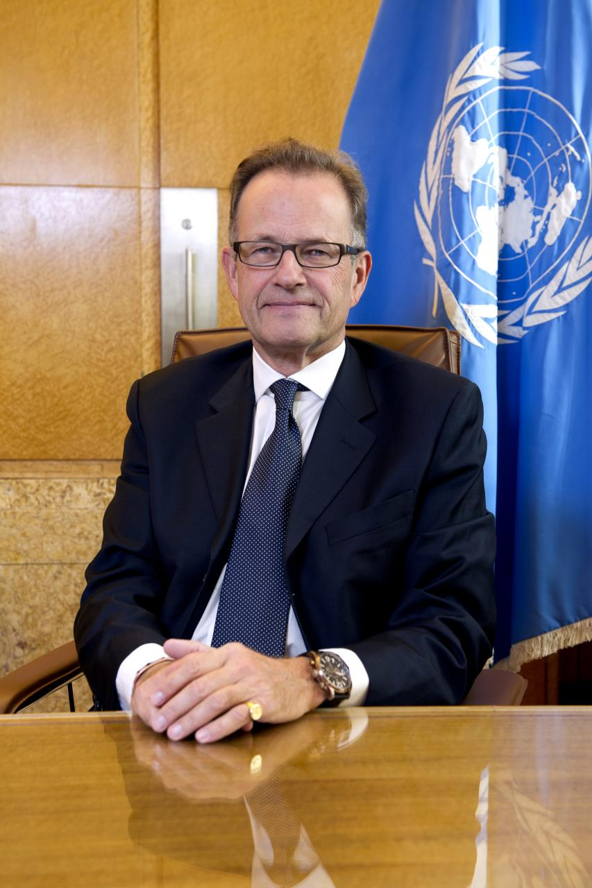 Michael Møller, UNOG Acting Director-General, Palais des Nations, Geneva. Monday 11 November 2013